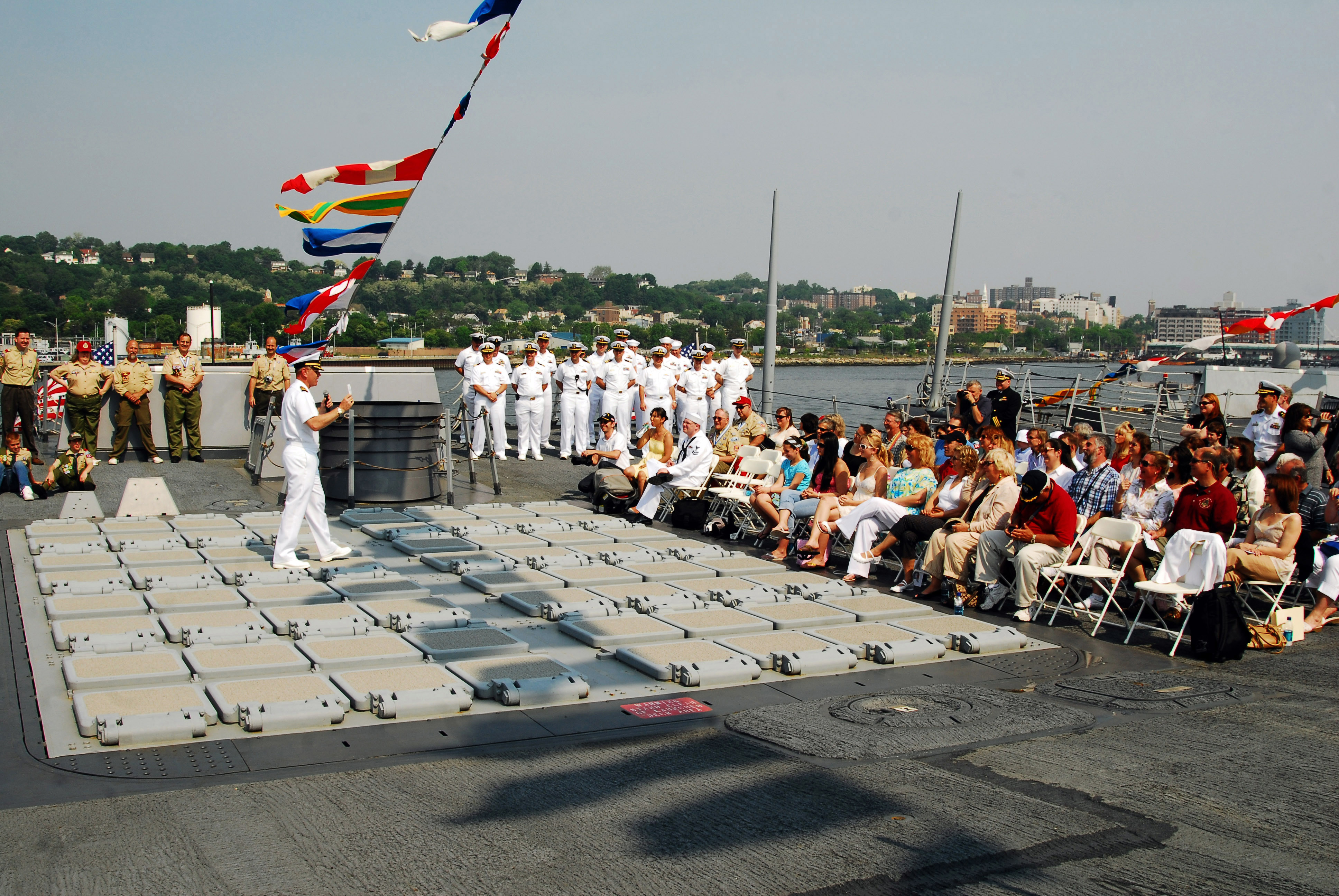 U.S. Navy Capt. Rick Williams, commodore of Destroyer Squadron 26, addresses the crowd present at the Eagle Scout ceremony aboard guided-missile destroyer USS Oscar Austin (DDG 79) as part of the festivities for Fleet Week May 26, 2007 in New York City, N.Y. (U.S. Navy photo by Mass Communication Specialist 3rd Class Kenneth R. Hendrix) (Released) Location: STATEN ISLAND, N.Y. USA